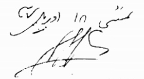 Sadegh Hedayat signature